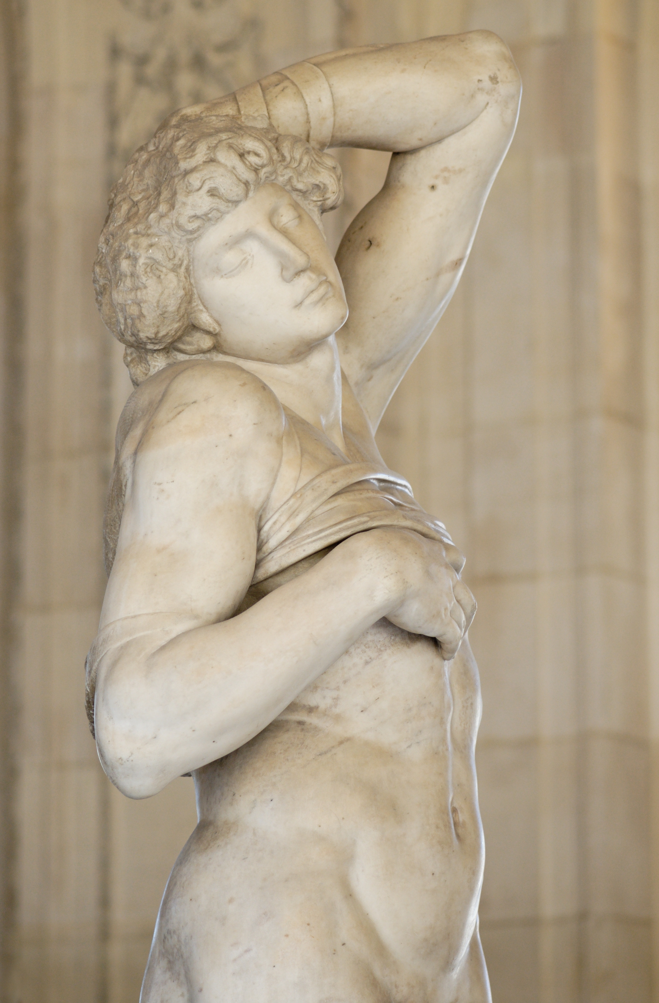 Detail from the Dying slave.